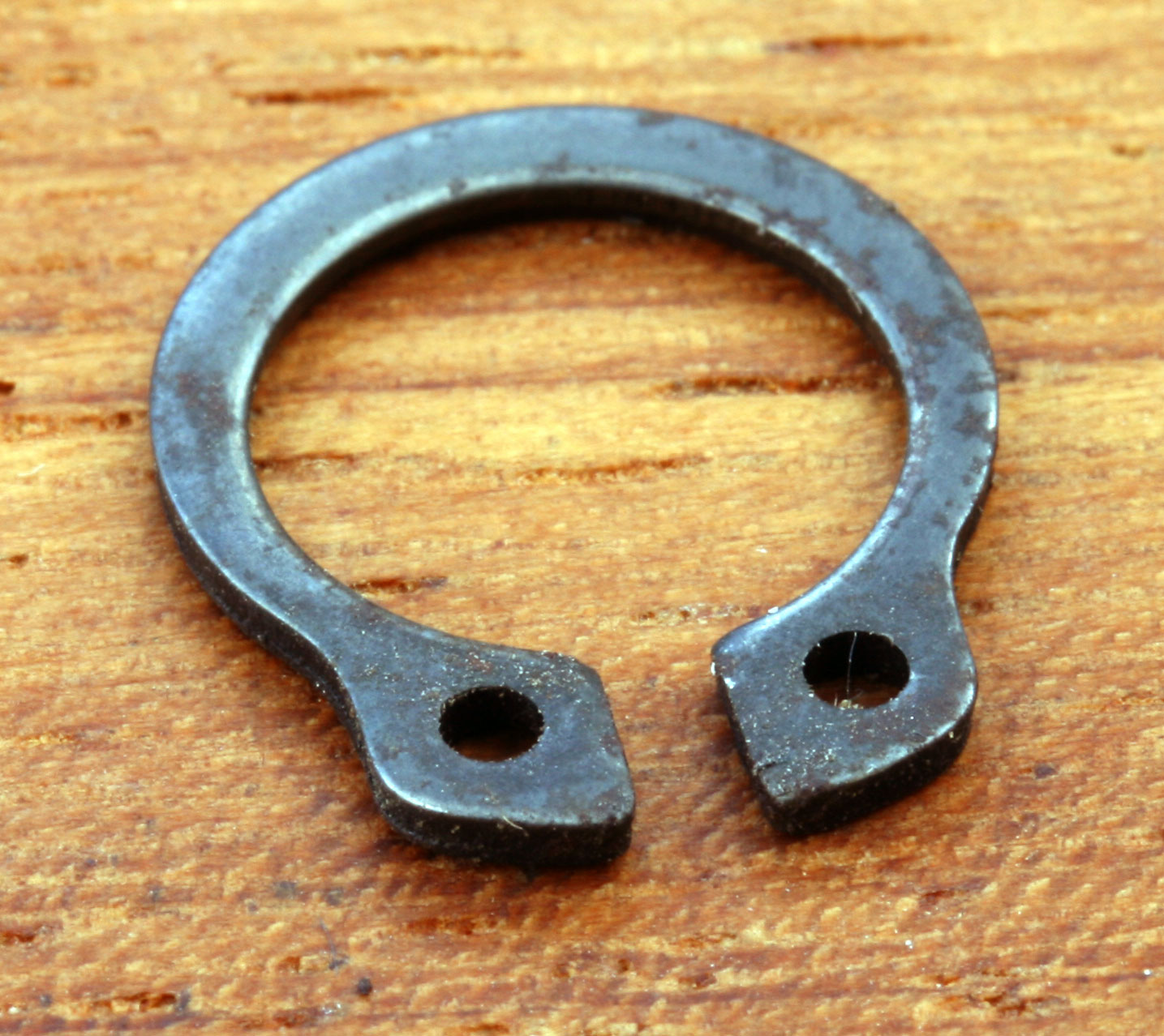 External circlip.